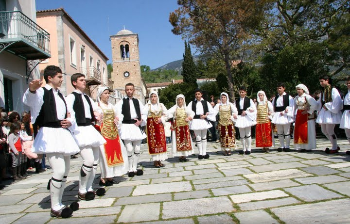 Monastery of Hosios Loukas in Boetia, Greece